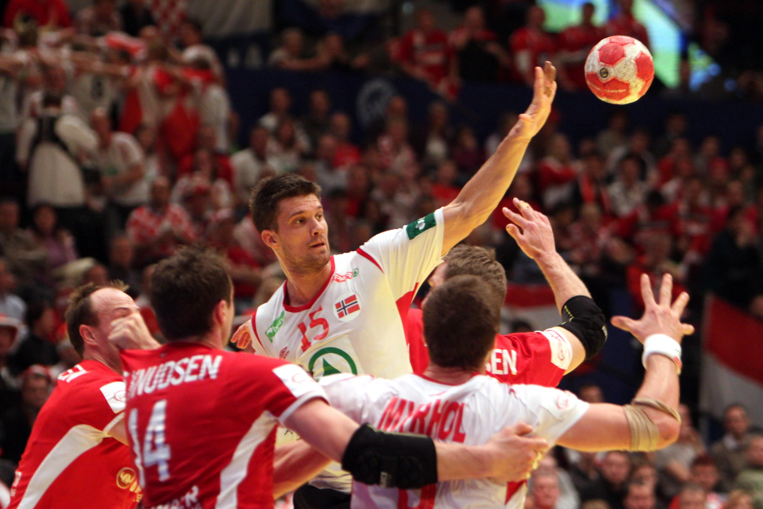 2010 European Men's Handball Championship Group I: Norway vs Denmark 23:24 — Despite the seven goals of the outstanding Kristian Kjelling (#15, Norway) Denmark) in the finish had to give itself struck